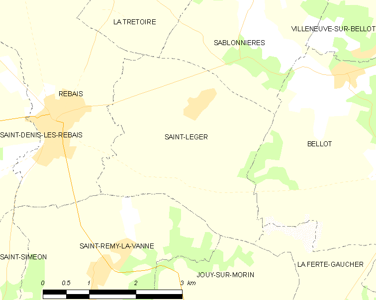 Map of French municipality Saint-Léger